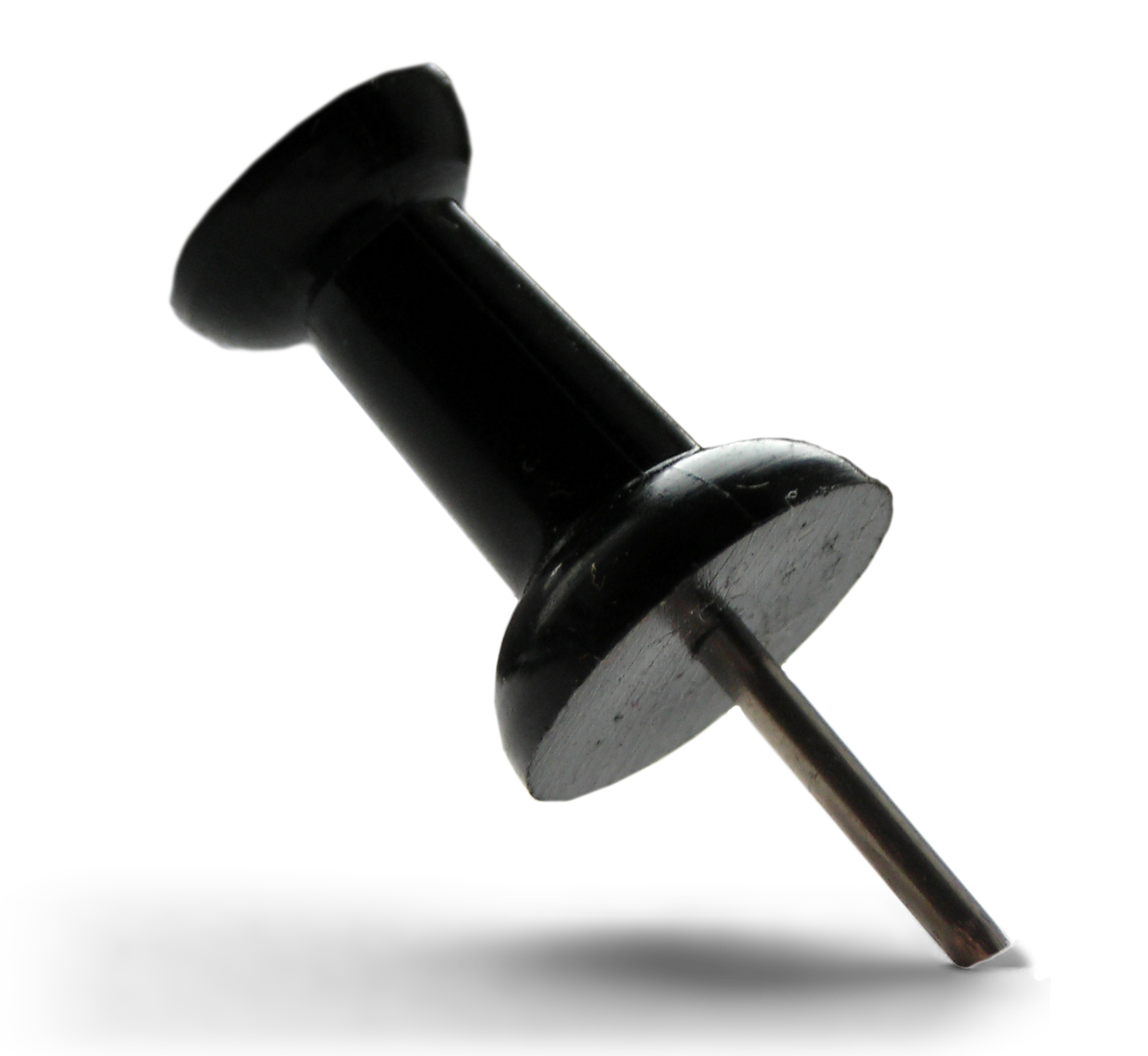 A push pin, or thumbtack